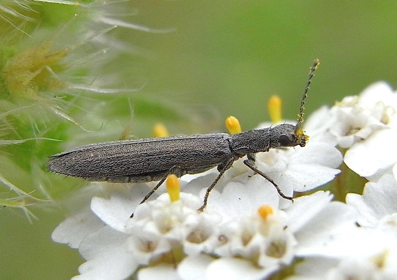 Dolichosoma lineare from Hungary, in Matra-mountains at 2010-06-27 Ricoh R8